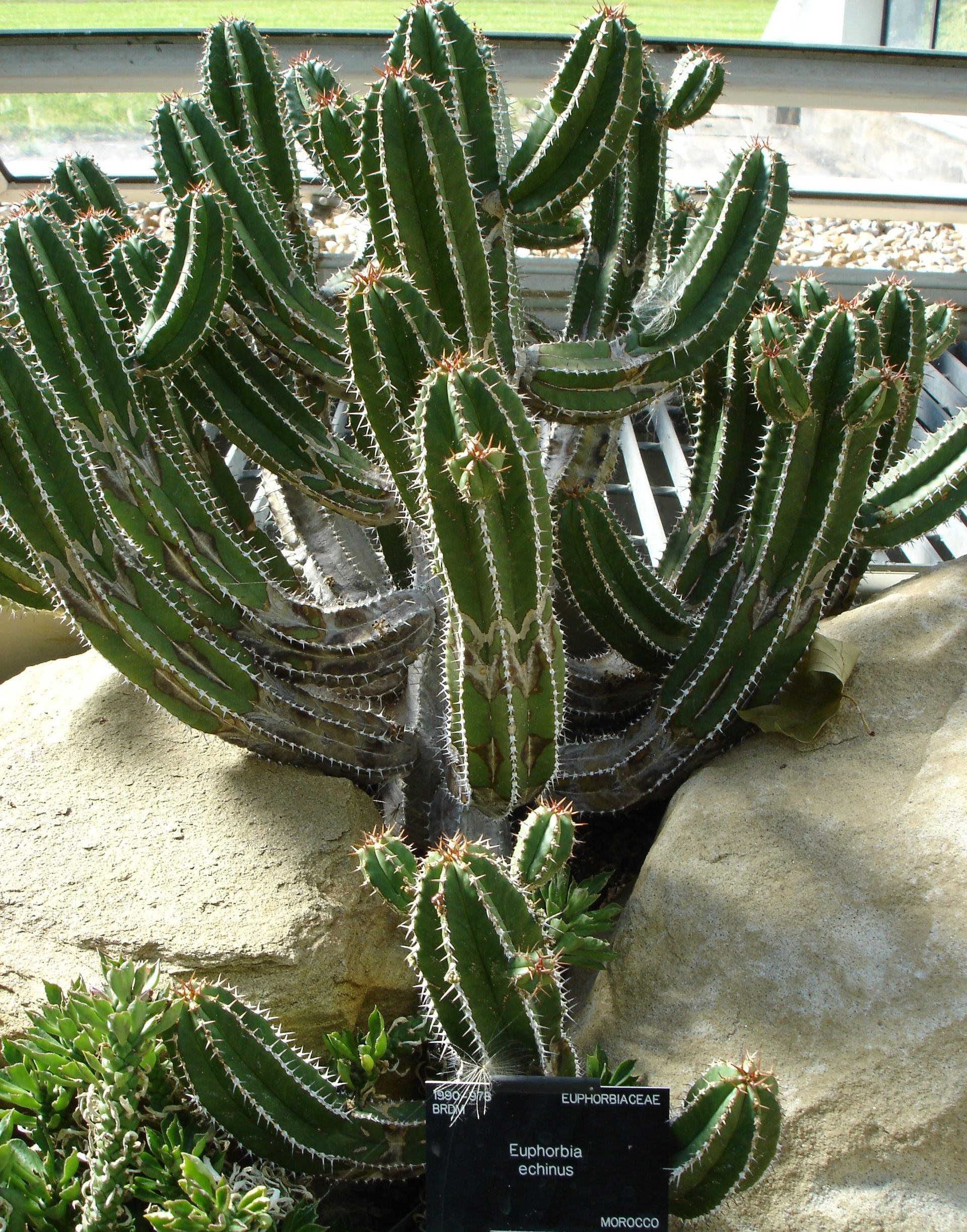 Royal Botanic Gardens, Kew, August 2005